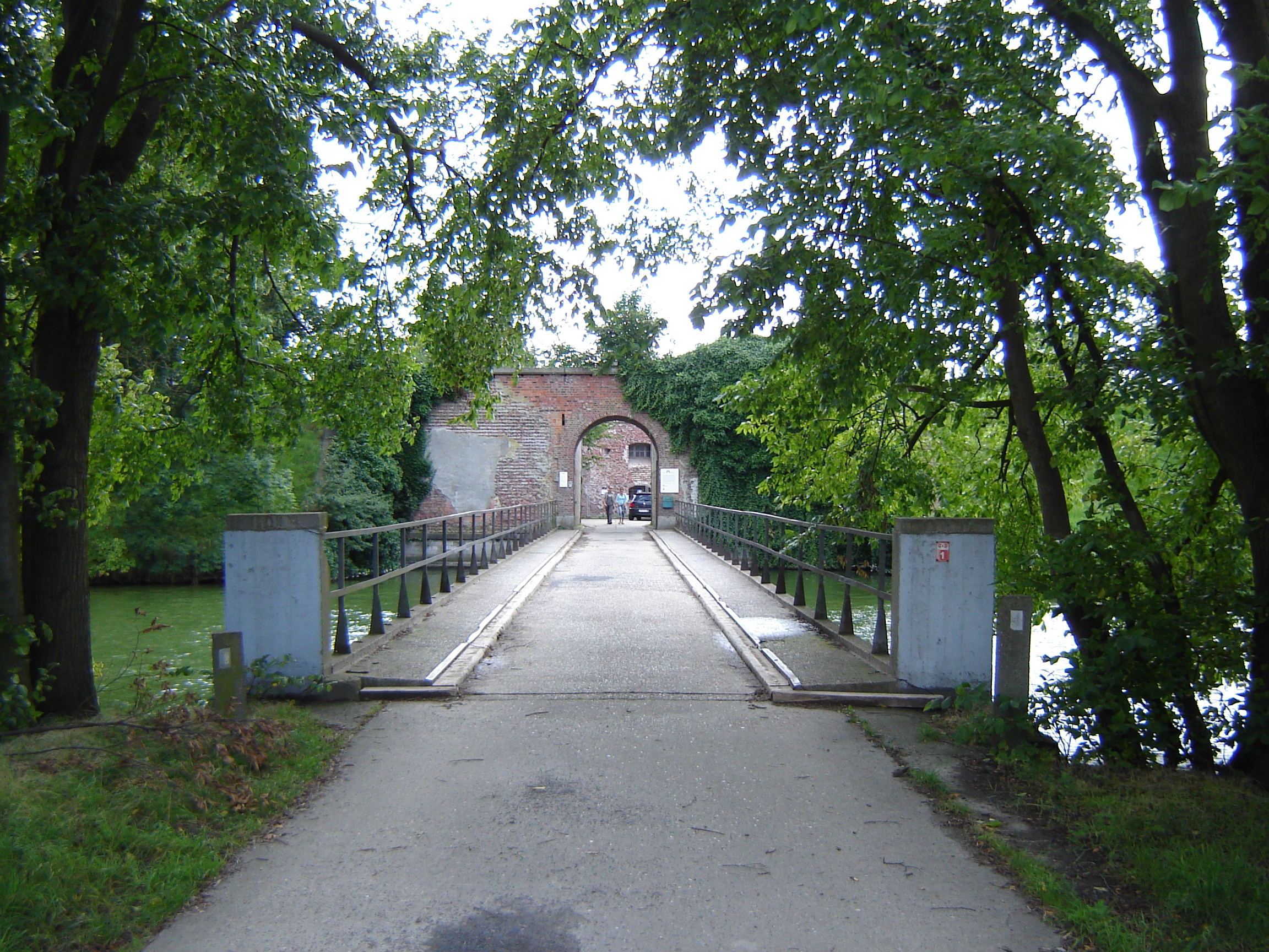 Fort Liefkenshoek in Kallo. Bridge and entrance gate. Kallo, Beveren, East Flanders, Belgium